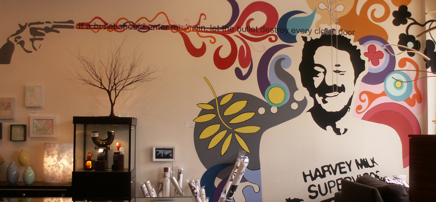 Mural by John Baden of Harvey Milk with his quote, "If ever a bullet should enter my brain, let the bullet destroy every closet door", in the store that was Castro Camera, now Given at 575 Castro Street.